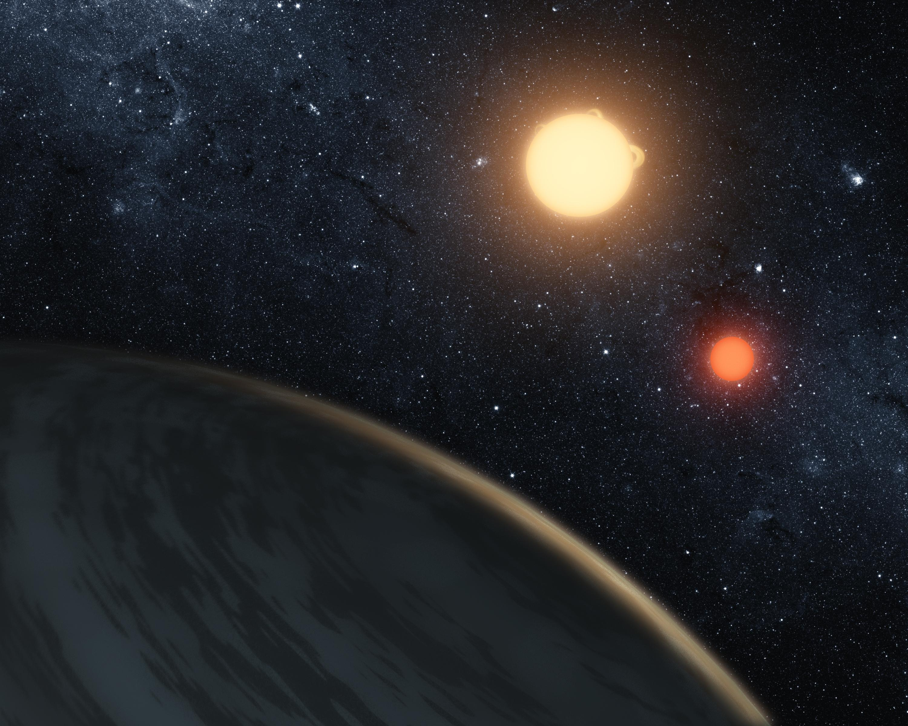 This artist's concept illustrates Kepler-16b, the first planet known to definitively orbit two stars -- what's called a circumbinary planet. The planet, which can be seen in the foreground, was discovered by NASA's Kepler mission. The two orbiting stars regularly eclipse each other, as seen from our point of view on Earth. The planet also eclipses, or transits, each star, and Kepler data from these planetary transits allowed the size, density and mass of the planet to be extremely well determined. The fact that the orbits of the stars and the planet align within a degree of each other indicate that the planet formed within the same circumbinary disk that the stars formed within, rather than being captured later by the two stars.